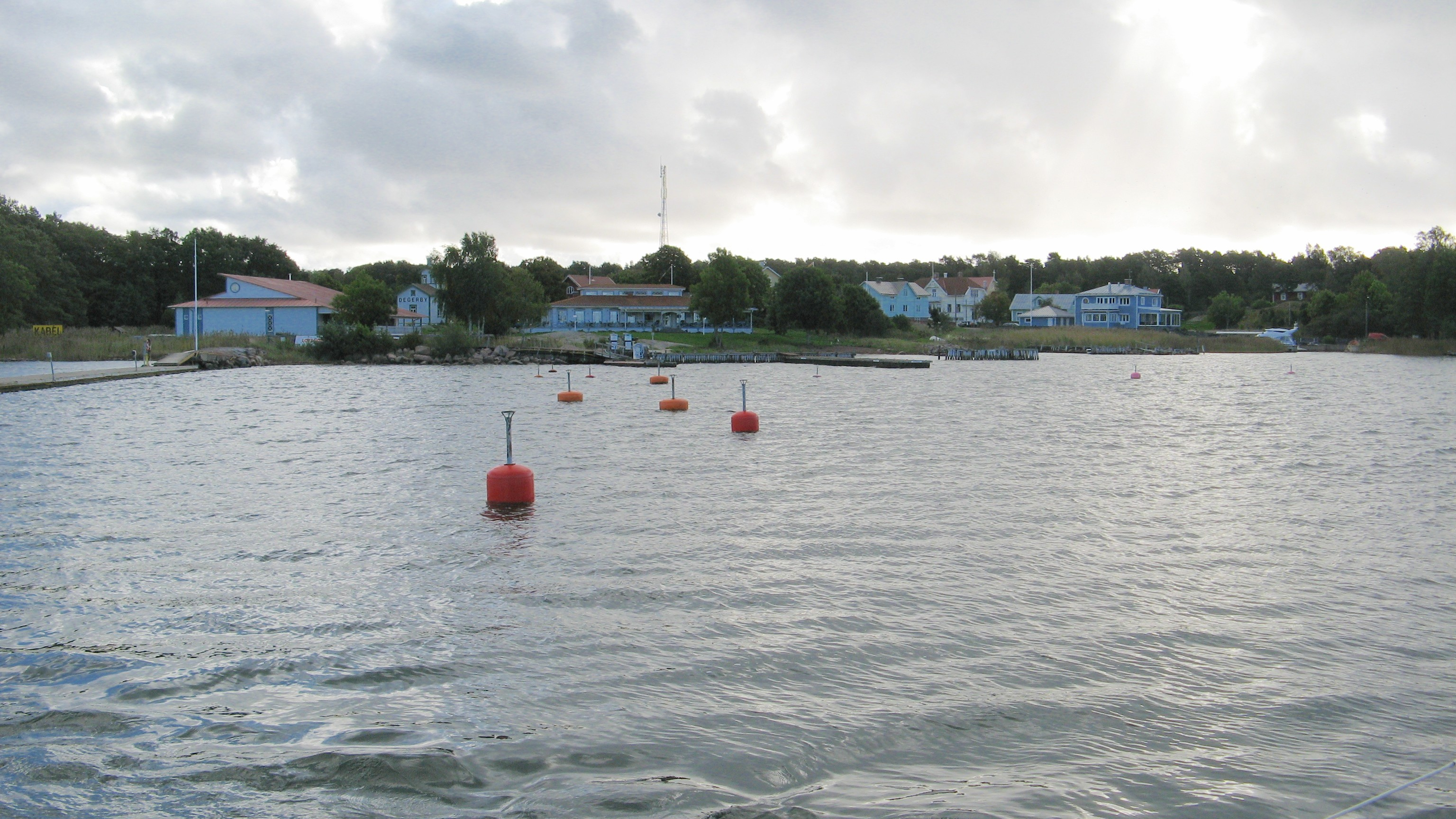 Lotsudden, Degerby, Föglö.